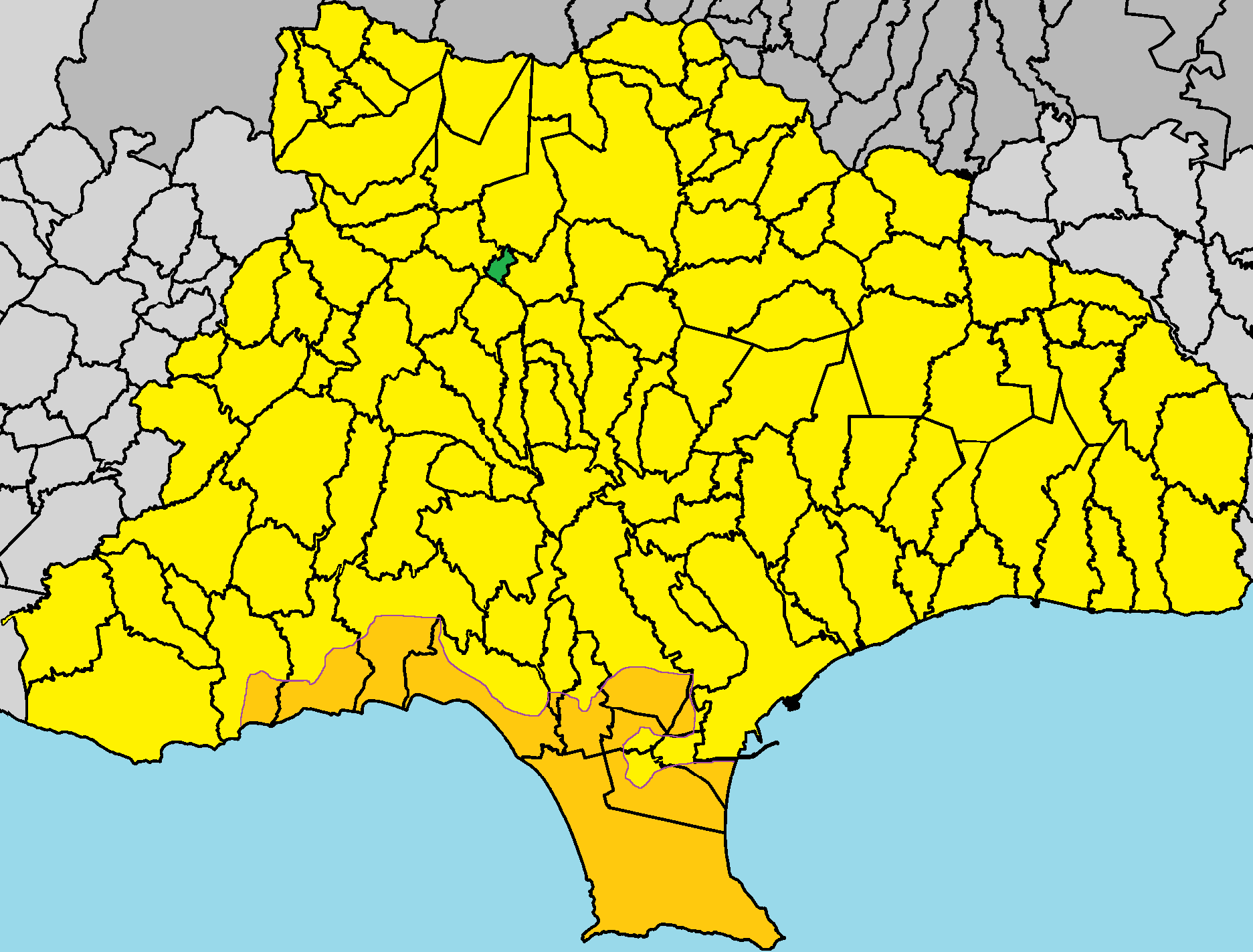 Kouka, Cyprus in Limassol District.